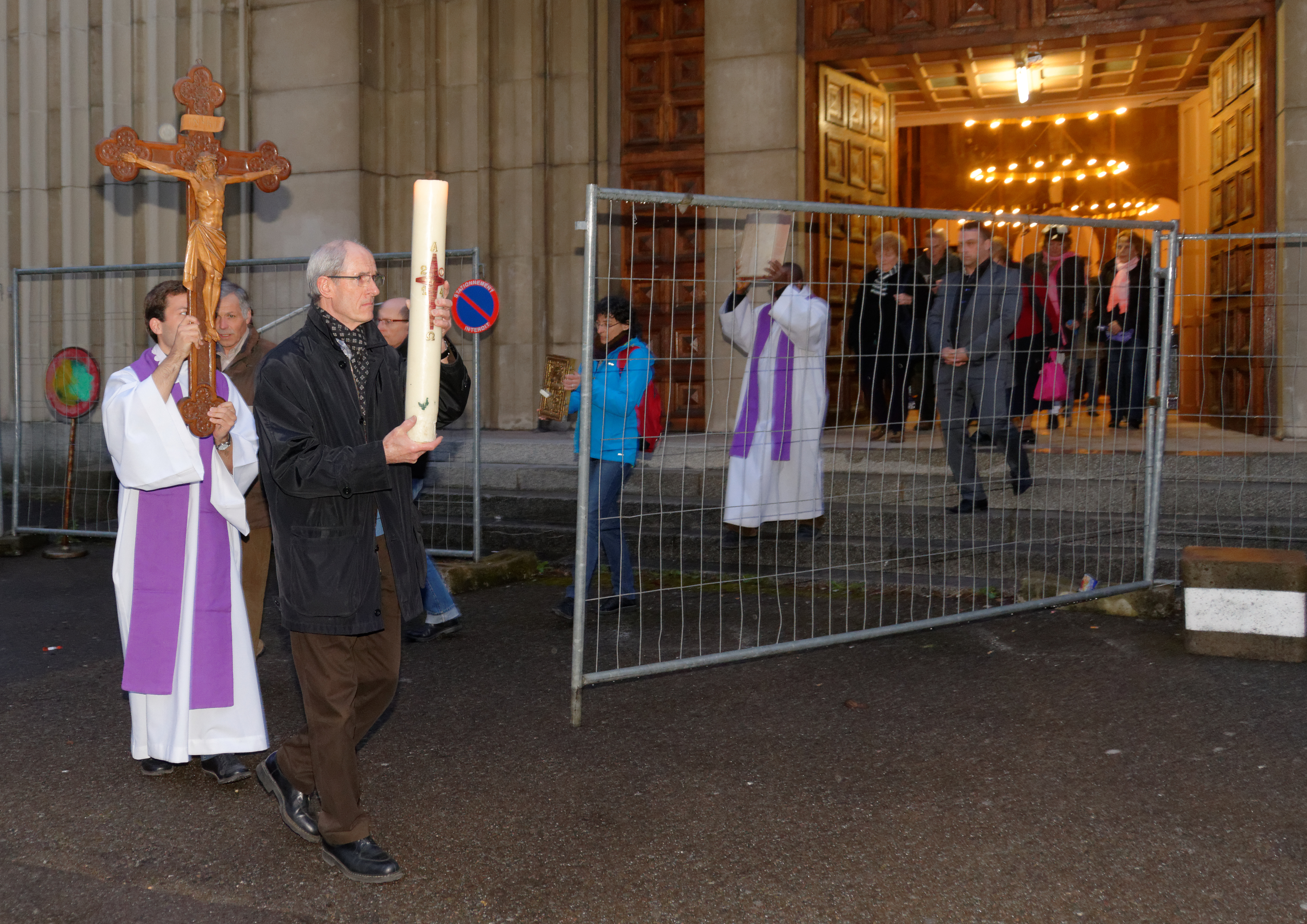 Personality rights warningAlthough this work is freely licensed or in the public domain, the person(s) shown may have rights that legally restrict certain re-uses unless those depicted consent to such uses. In these cases, a model release or other evidence of consent could protect you from infringement claims.